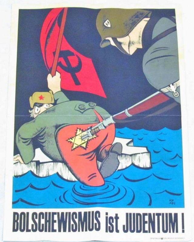 A Fascist pointing his bayonet against the backside of a Jewish socialist. The text below reads, ‘Bolshevism is Jewish!’